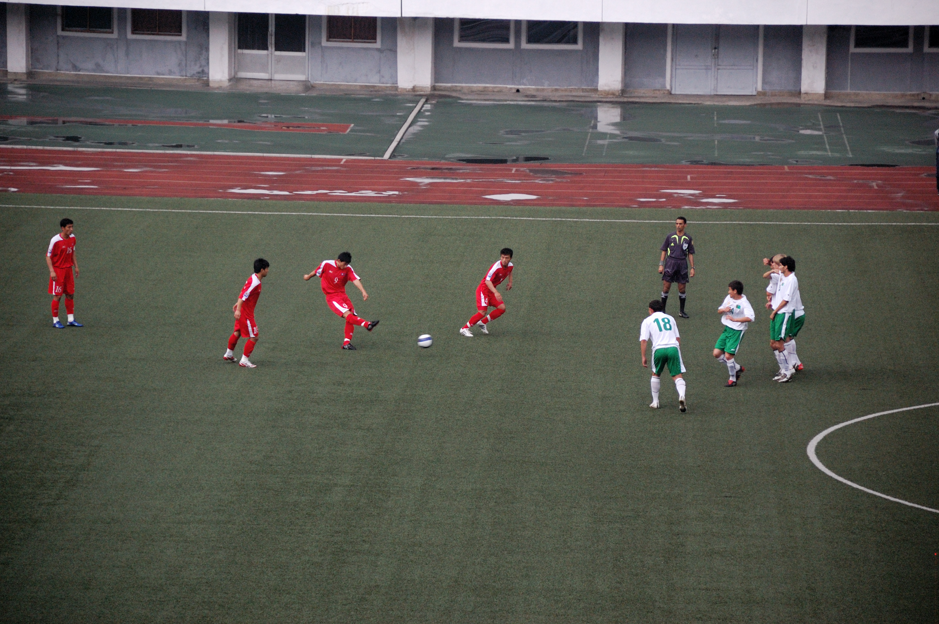 Trip to North Korea in June, 2008